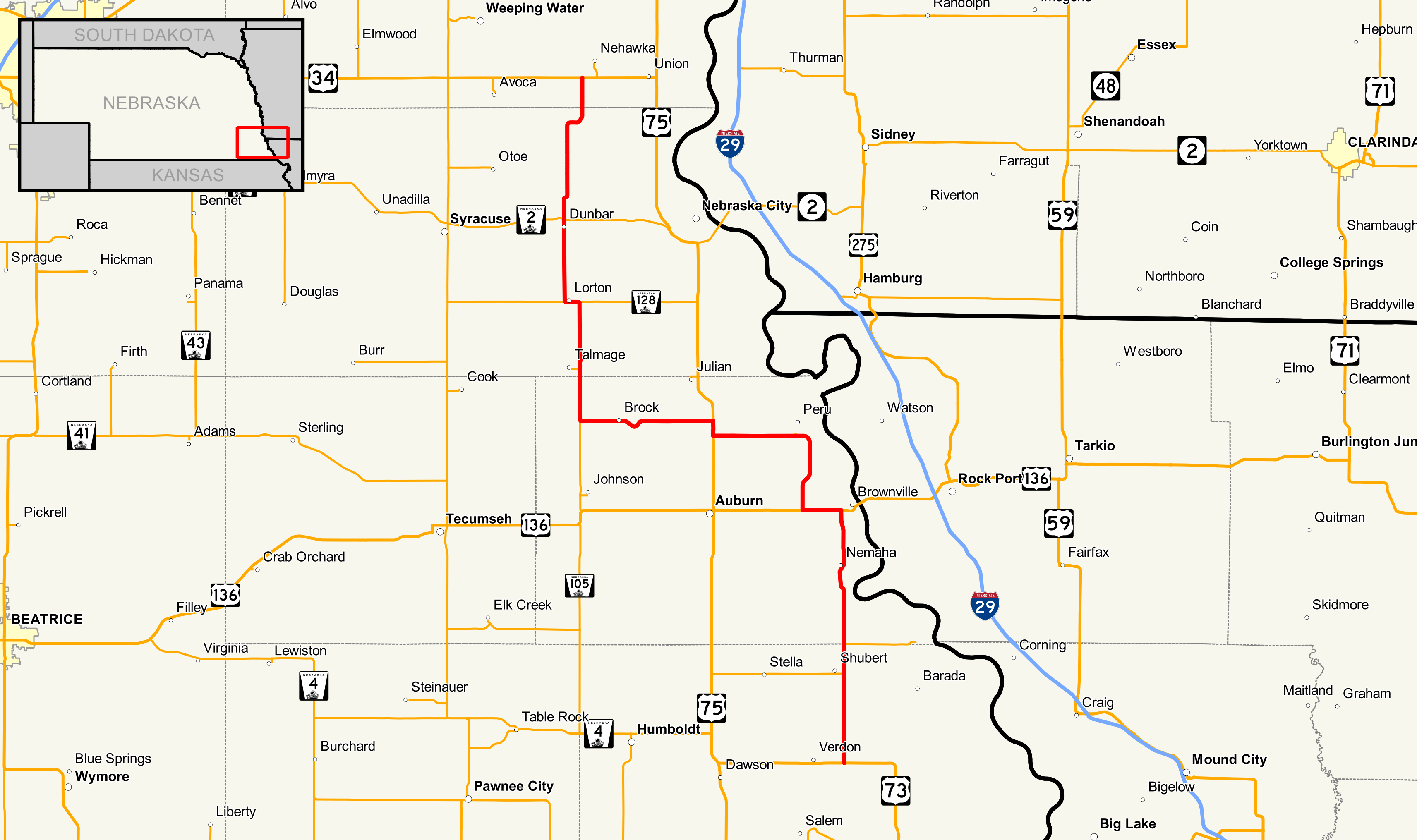 Map of Nebraska Highway 67 Data Sources: Nebraska Highways - - Dec 2016 Nebraska County Boundaries - - Dec 2016 Nebraska City Boundaries - - Dec 2016 This PNG graphic was created with QGIS